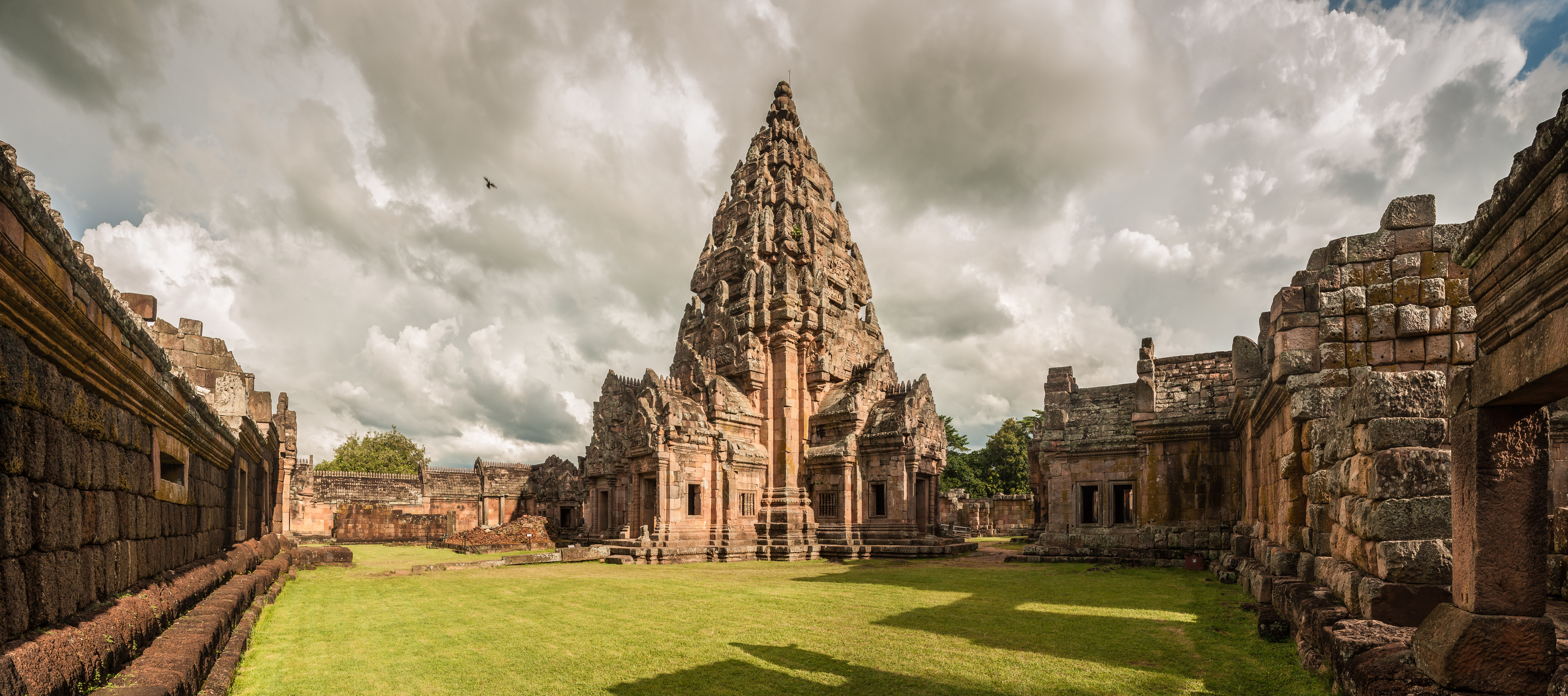 Phanom Rung temple, near Buriram, Northeast Thailand. Phanom Rung was built between Xth and XIIIth century and is the largest khmer temple in Thailand. This panoramic view has an horizontal FOV of 194°.